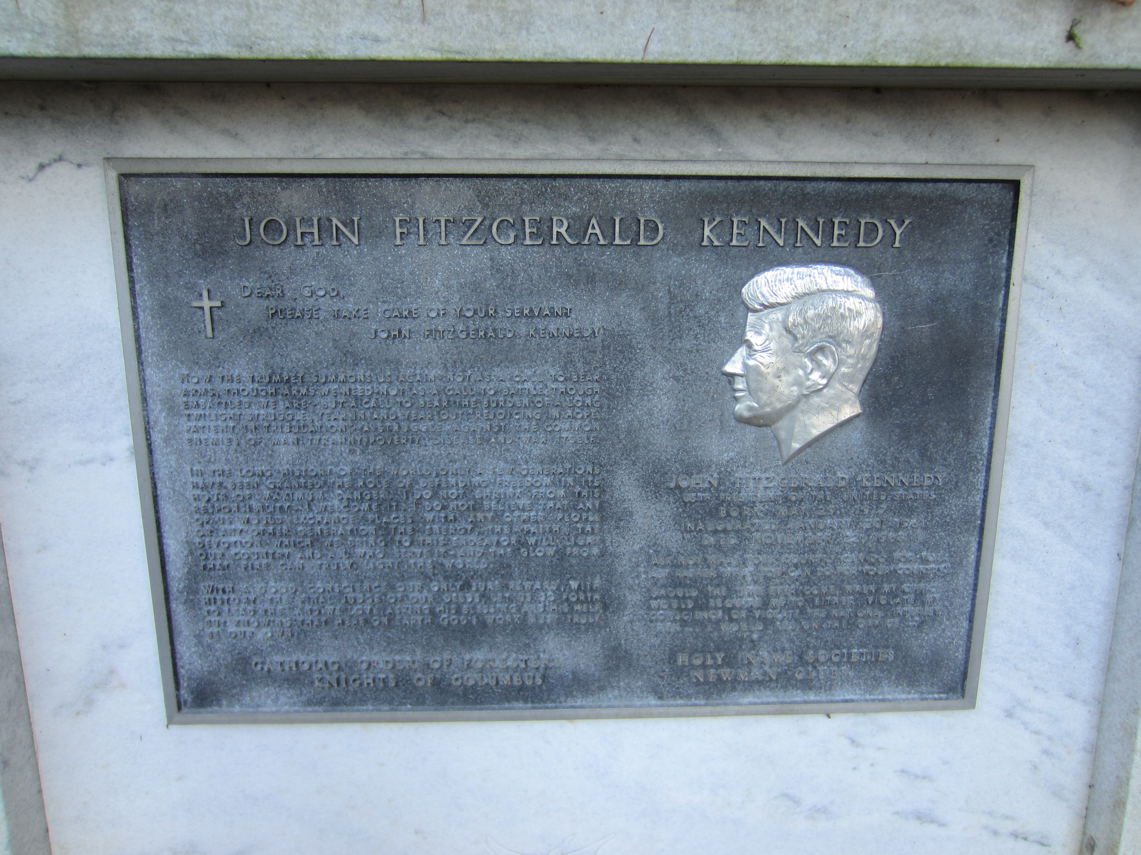 The Grotto, Portland, Oregon (2014)